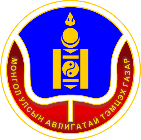 Logo of IAAC